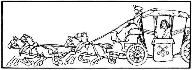 Illustration by Otto Ubbelohde to the fairy tale The Master Thief